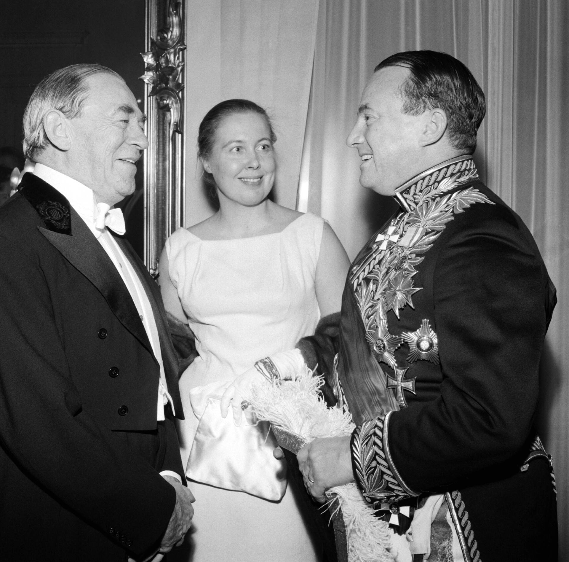 Photograph of the Finnish architects Alvar Aalto (1898–1976) and Elissa Aalto (1922–1994) and the Swedish ambassador Gösta Engzell (1898–1997) at the Finnish Independence Day reception at the Presidential palace in Helsinki.